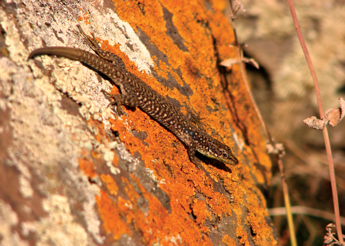 Darevskia raddei near Sevan Lake, Armenia